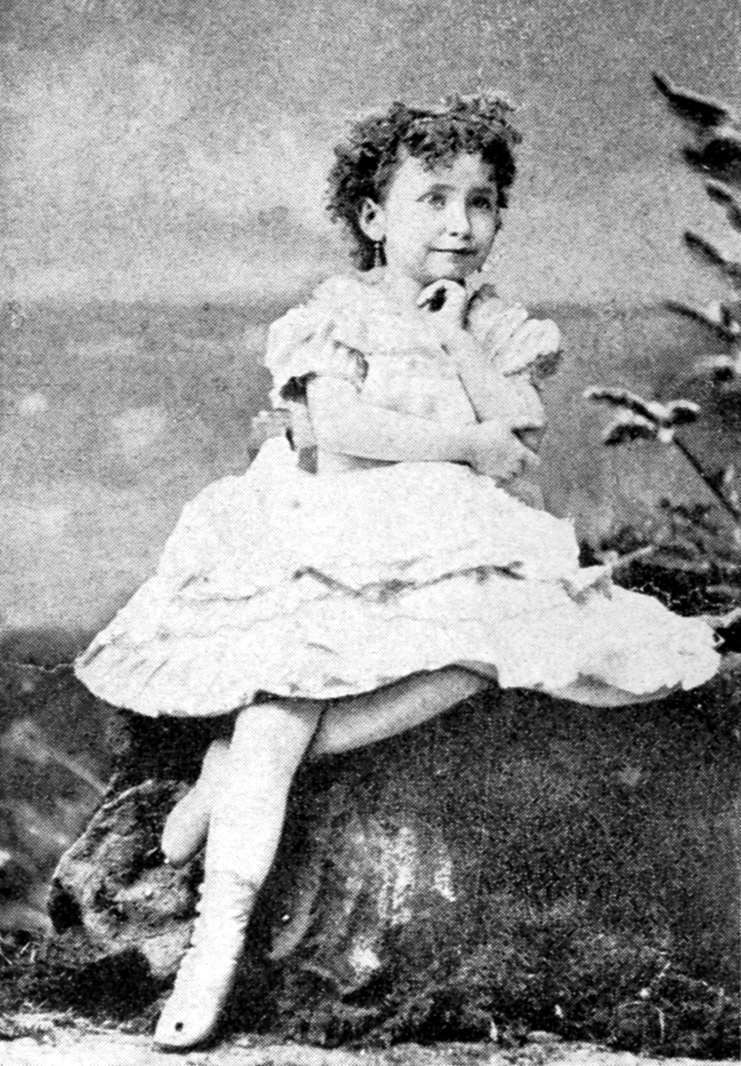 Depicted person: Minnie Maddern Fiske – American actress and playwright